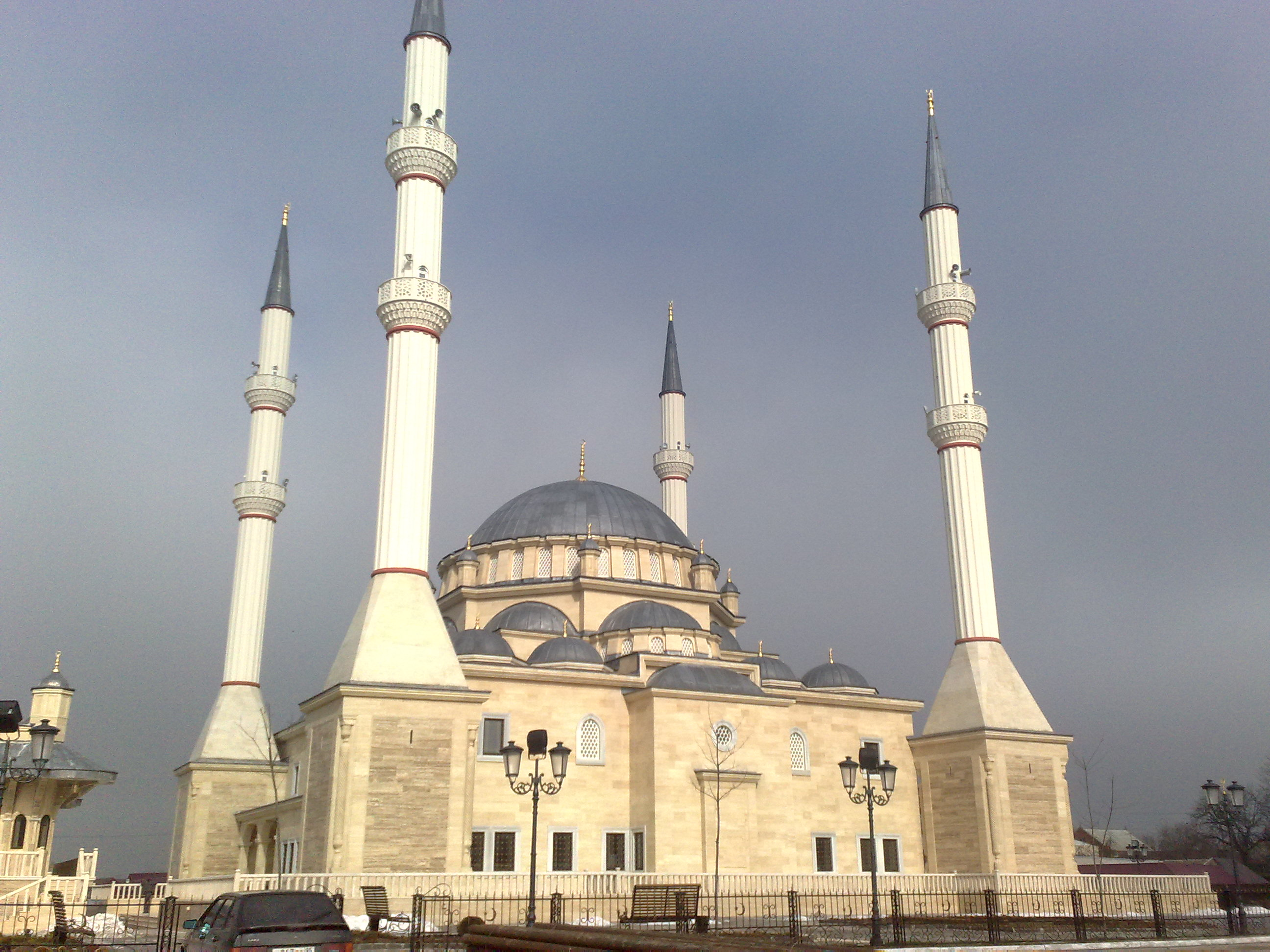 Mechet raspolozheny v Kurchaloe